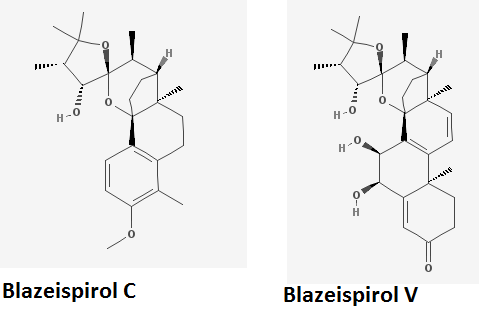 Blazeispirol C,V